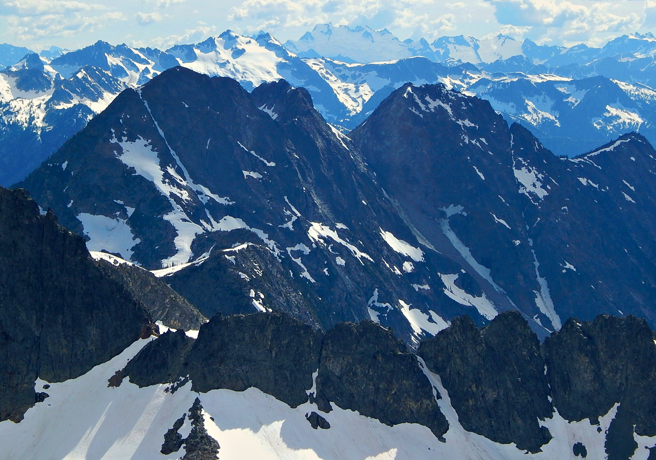 Wallaby Peak summit view. June 27, 2016 North Cascades. Annotation for Stiletto Peak